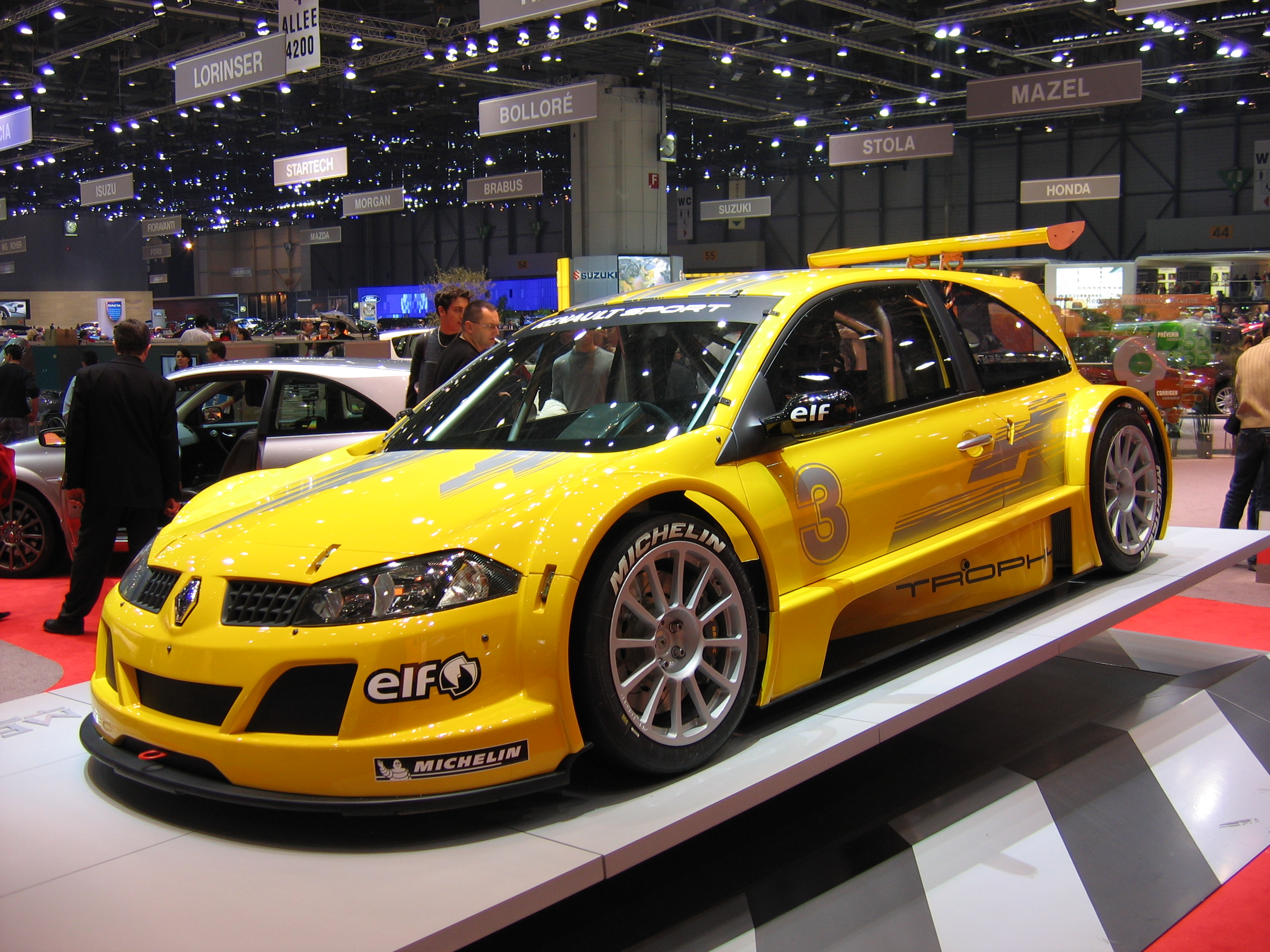 Geneva Motor Show 2005